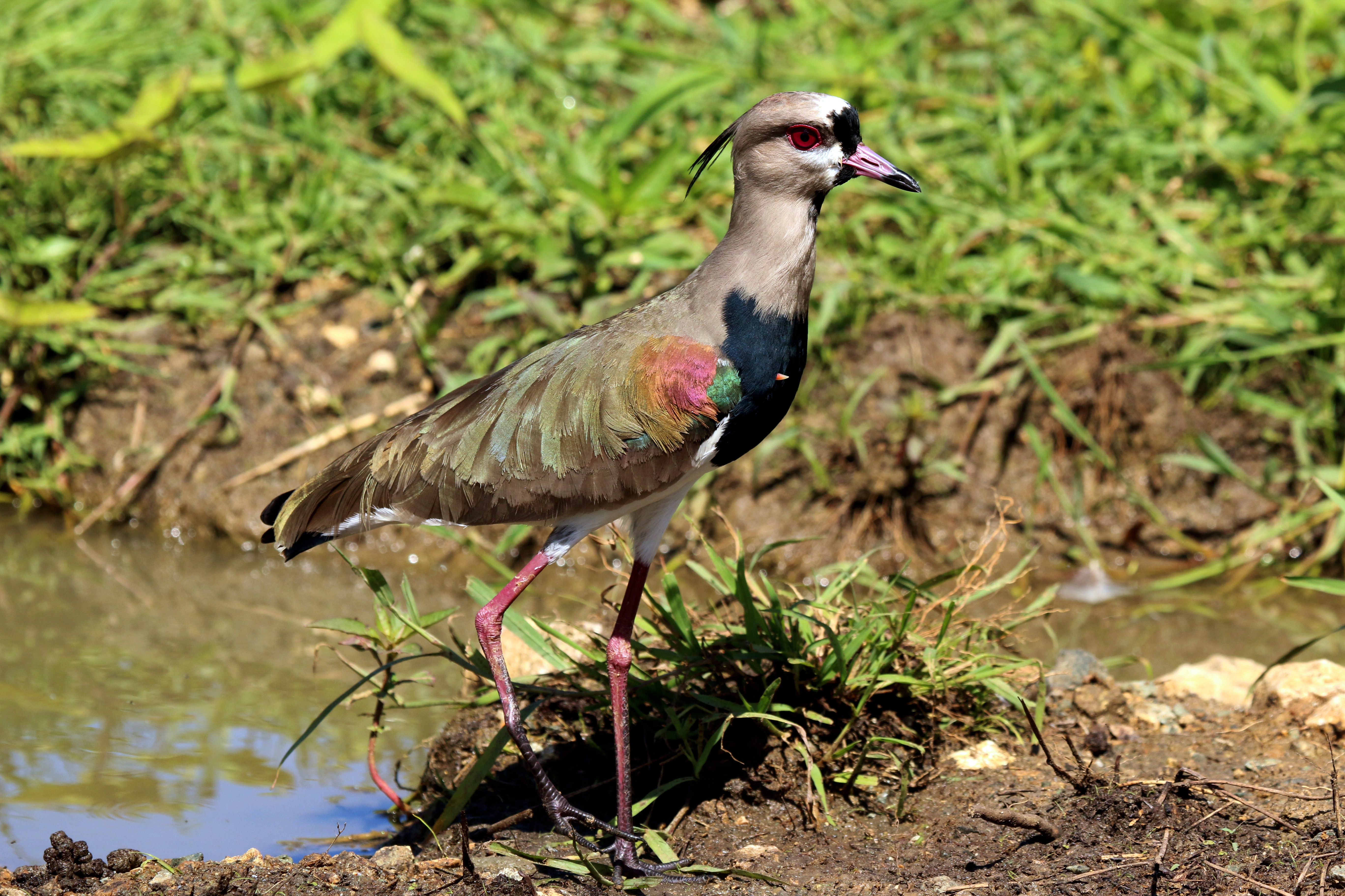 Southern lapwing (Vanellus chilensis cayennensis), Tobago